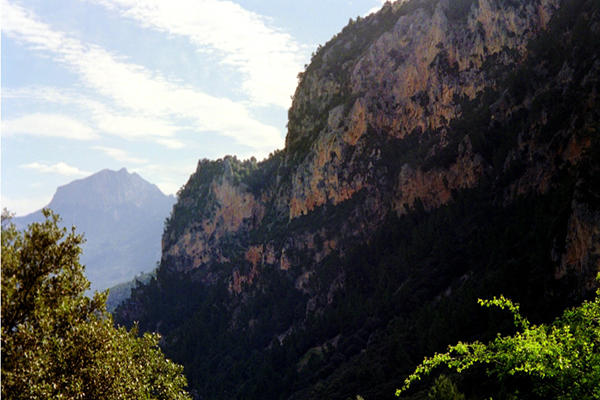 Steep wall in Serra de Tramuntana